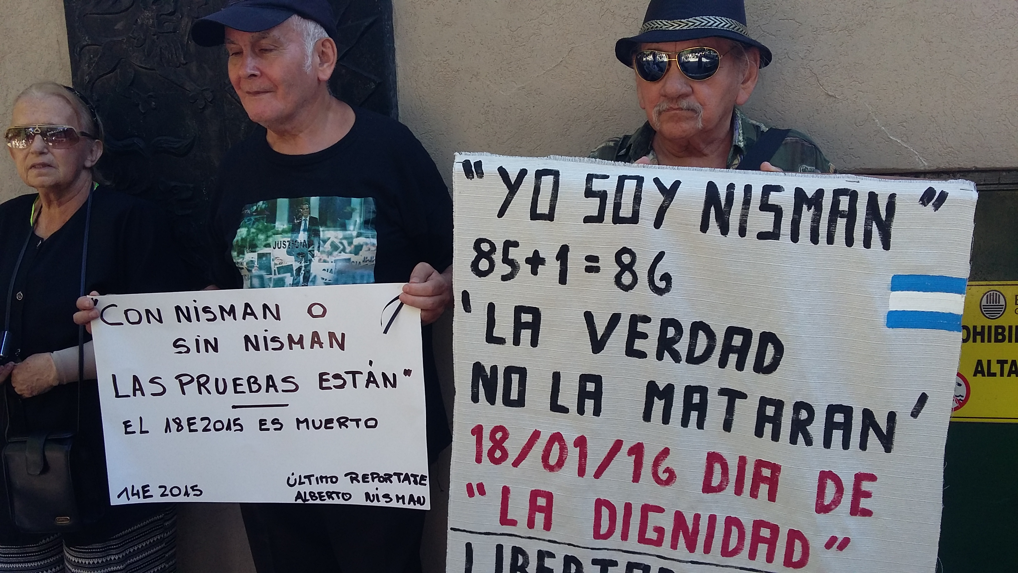 Protest march in Buenos Aires 1 year death anniversary of Alberto Nisman